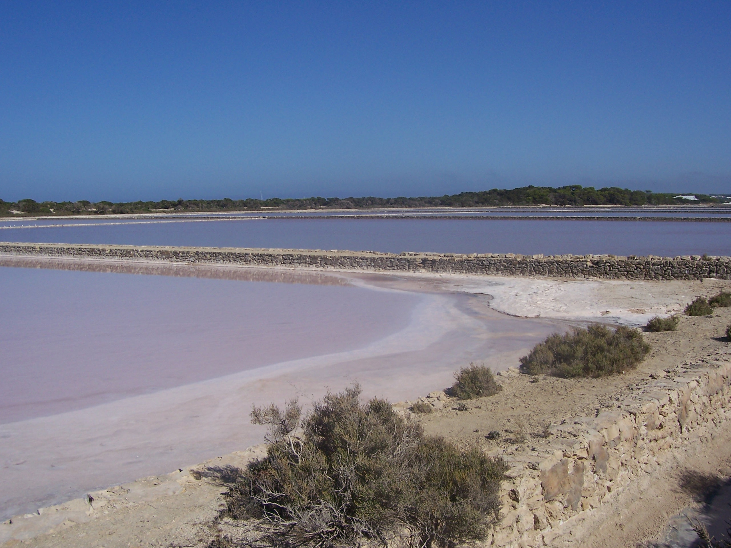 Formentera ses salines